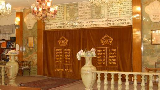 Inside view of the Abrishami Synagogue